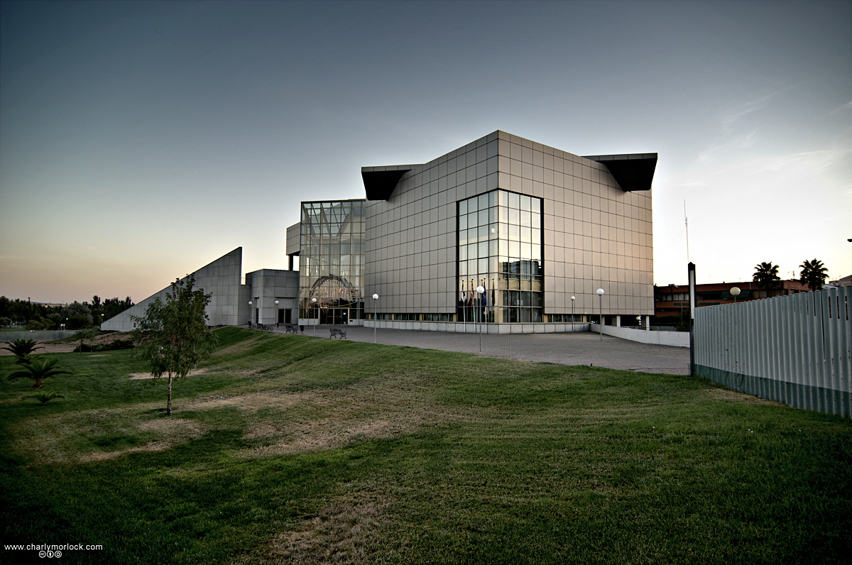 Jesus Delgado Valhondo Municipal Library in Mérida (Spain).